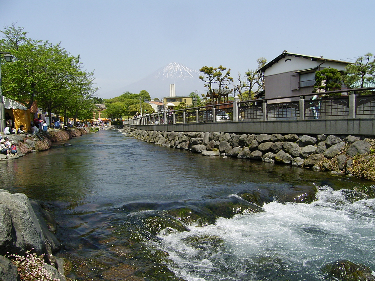 Kandagawa, a tributary of the Fuji river Fujinomiya Japan